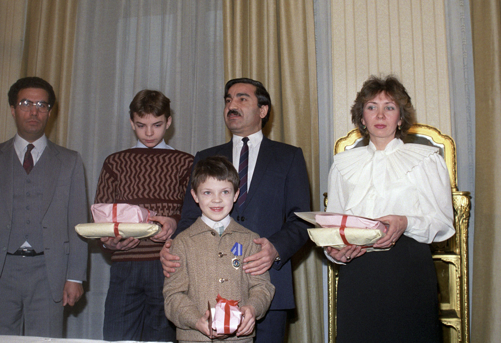 “Afghan ambassador grants an Order of Glory of the Republic of Afghanistan to A. Sekretaryov's family”. Afghan ambassador granting an Order of Glory of the Republic of Afghanistan to the family of Izvestia news paper correspondent Alexander Sekretaryov, who died on duty in Afghanistan. Centre - ambassador extraordinary and plenipotentiary of Democratic Republic of Afghanistan in the USSR Sayid Mahammad Gulyabzoi.